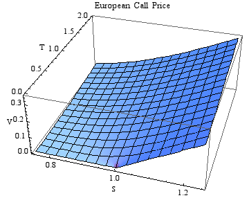 A European call valued using the Black-Scholes pricing equation for varying asset price S and time-to-expiry T. In this particular example, the strike price is set to unity, the risk-free rate is 0.04 and the volatility is 0.2.